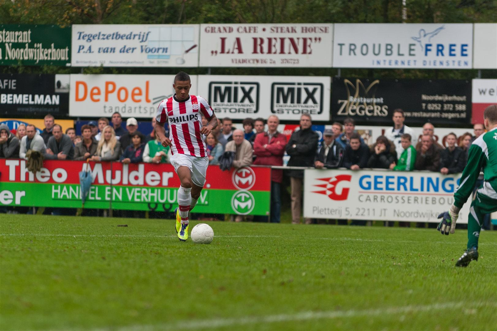 Memphis Depay playing for PSV Eindhoven.